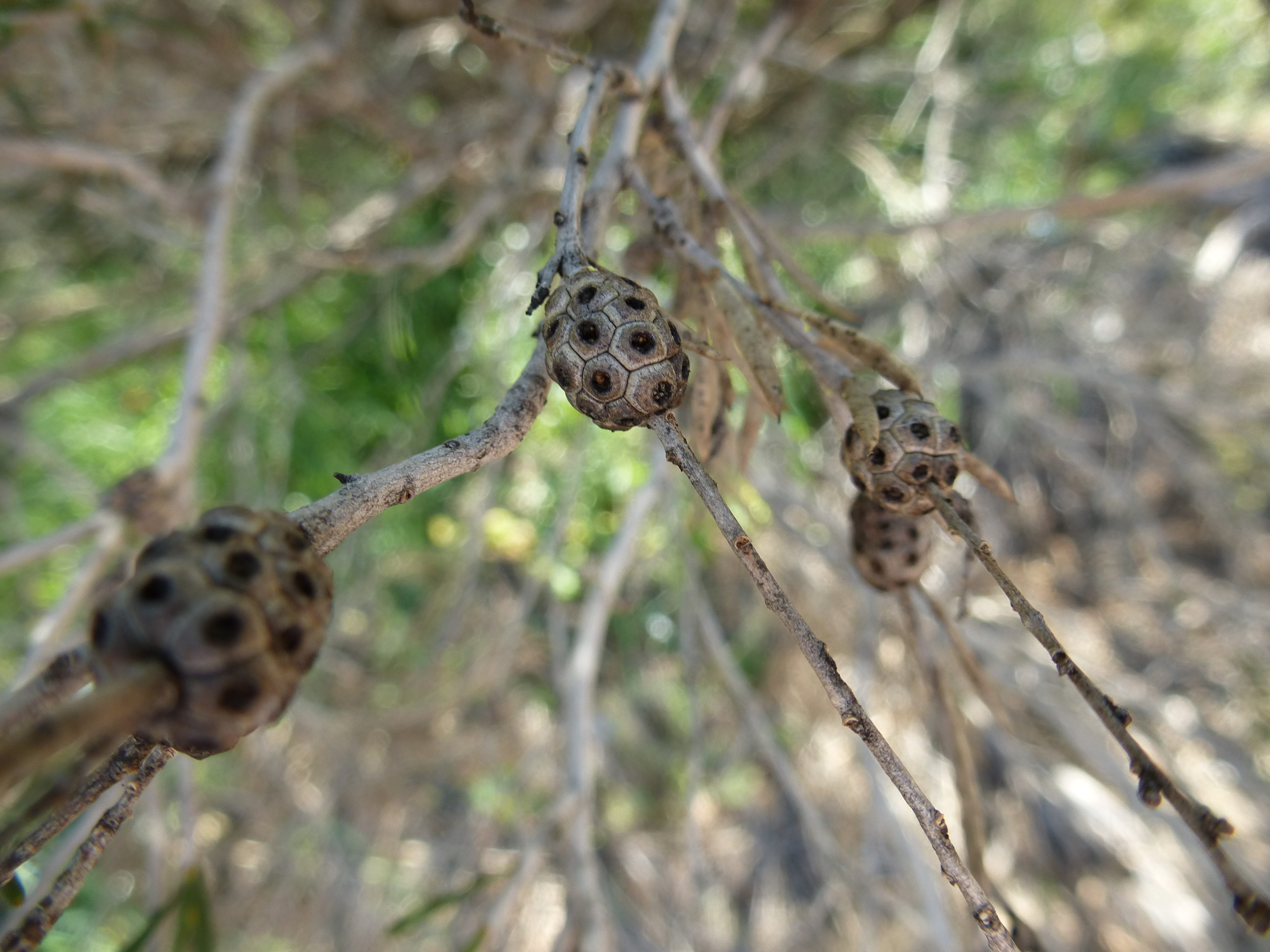 Melaleuca stereophloia growing 20 km east of Geraldton